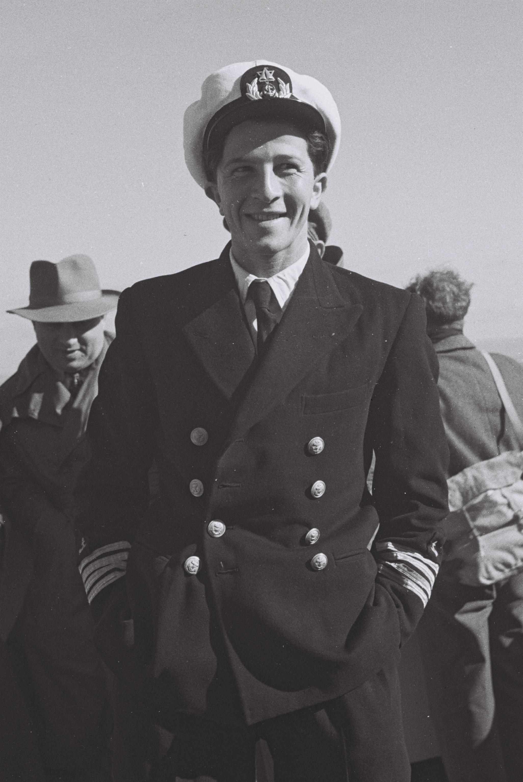 Ike Aharonovitz, 25-yrs. old, ex-commander of Exodus 1947, wounded by British boarding party, is now captain of s.s. Atzmaut; aboard ship.